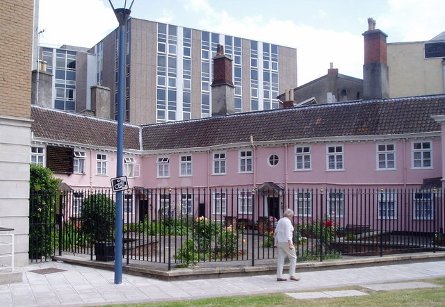 Merchant Venturers' Almhouses, Bristol